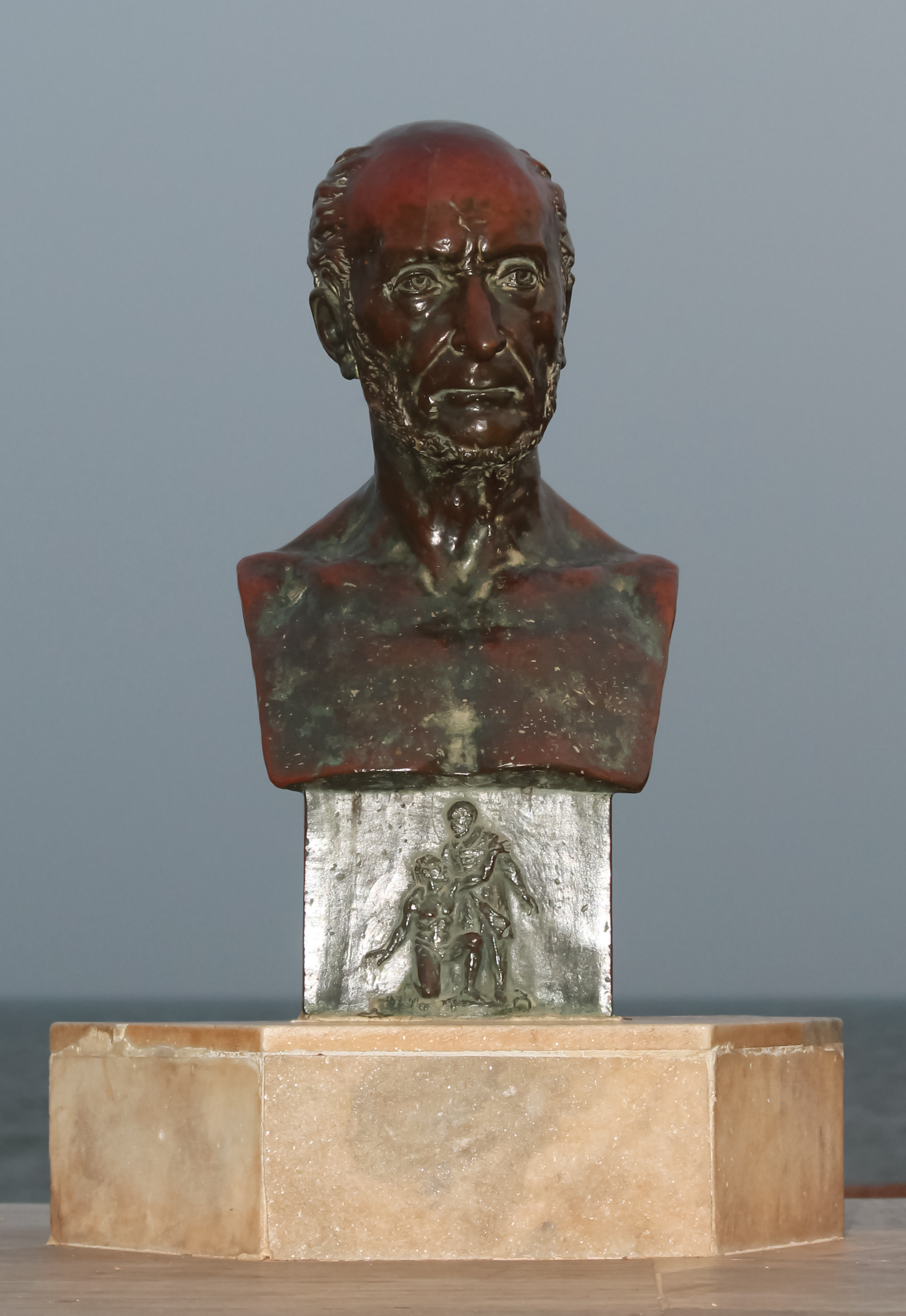 Victor Schoelcher statue at Pondicherry